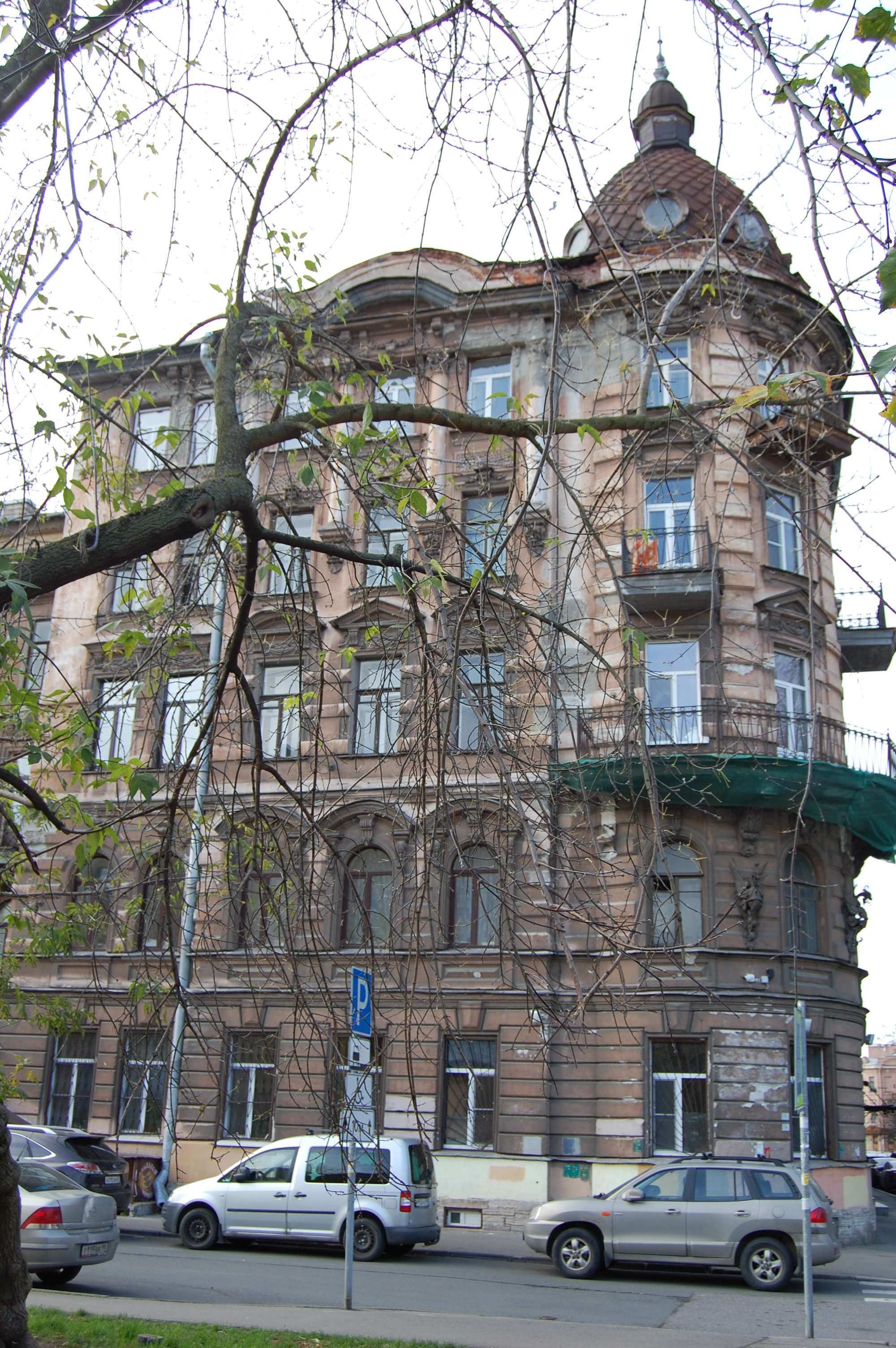 Profitable house of Astashev (1899-1900), Zverinskaya ulitsa 17B / per. Lyubansky, 1. The so-called "house with dragons." Arch. V.R. Kurzanov